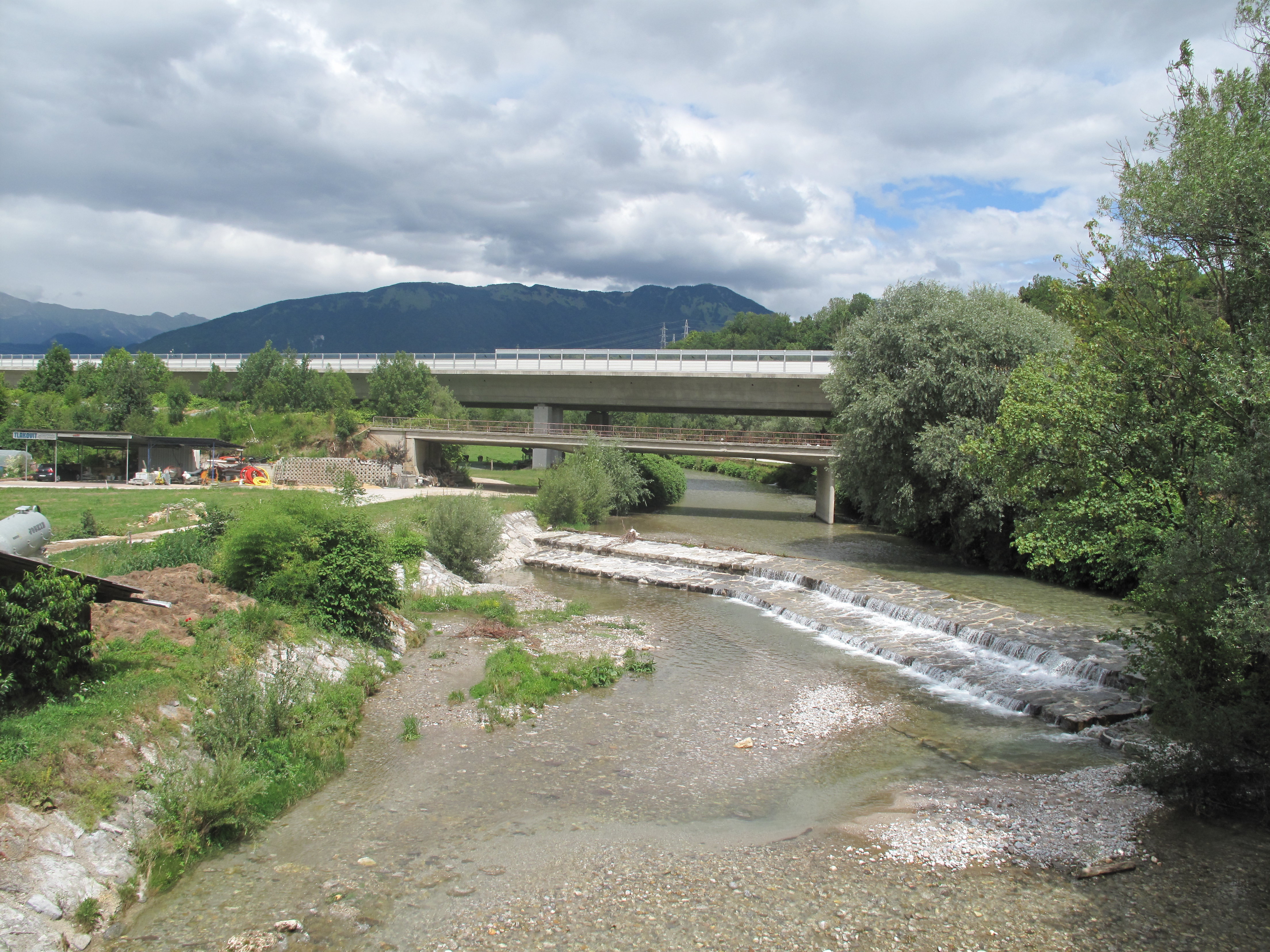 Between Bistrica and Podbrezje, river: Tržiška Bistrica.